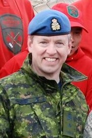 Brigadier General David Millar, RCAF as commander of Joint Task Force (North)